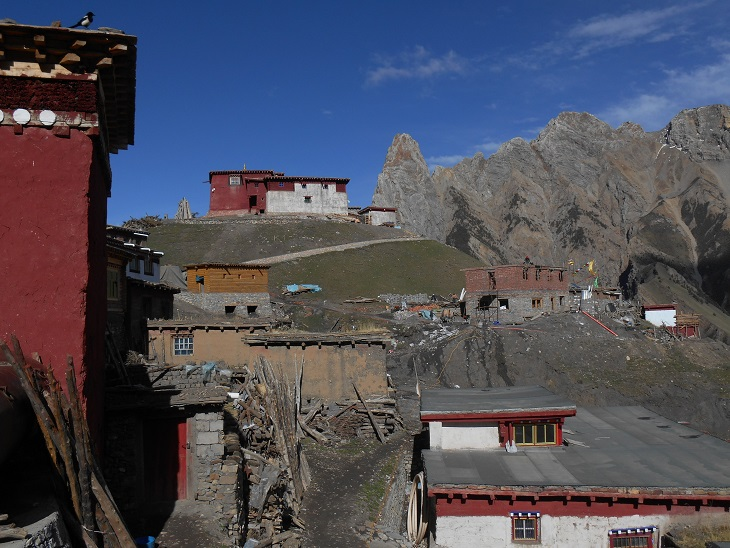 Tana Monastery